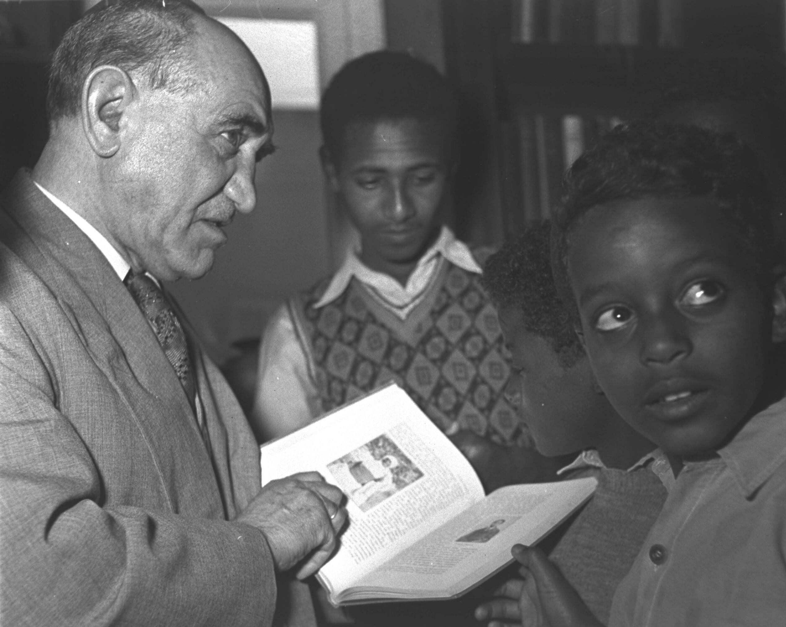 Original Description: "THESE BOOKS ARE ABOUT YOU", EXPLAINS THE AUTHOR, PROFESSOR FEITELOWITZ, DURING VISIT OF ABYSSINNIAN JEWISH CHILDREN TO HIS TEL AVIV HOME.